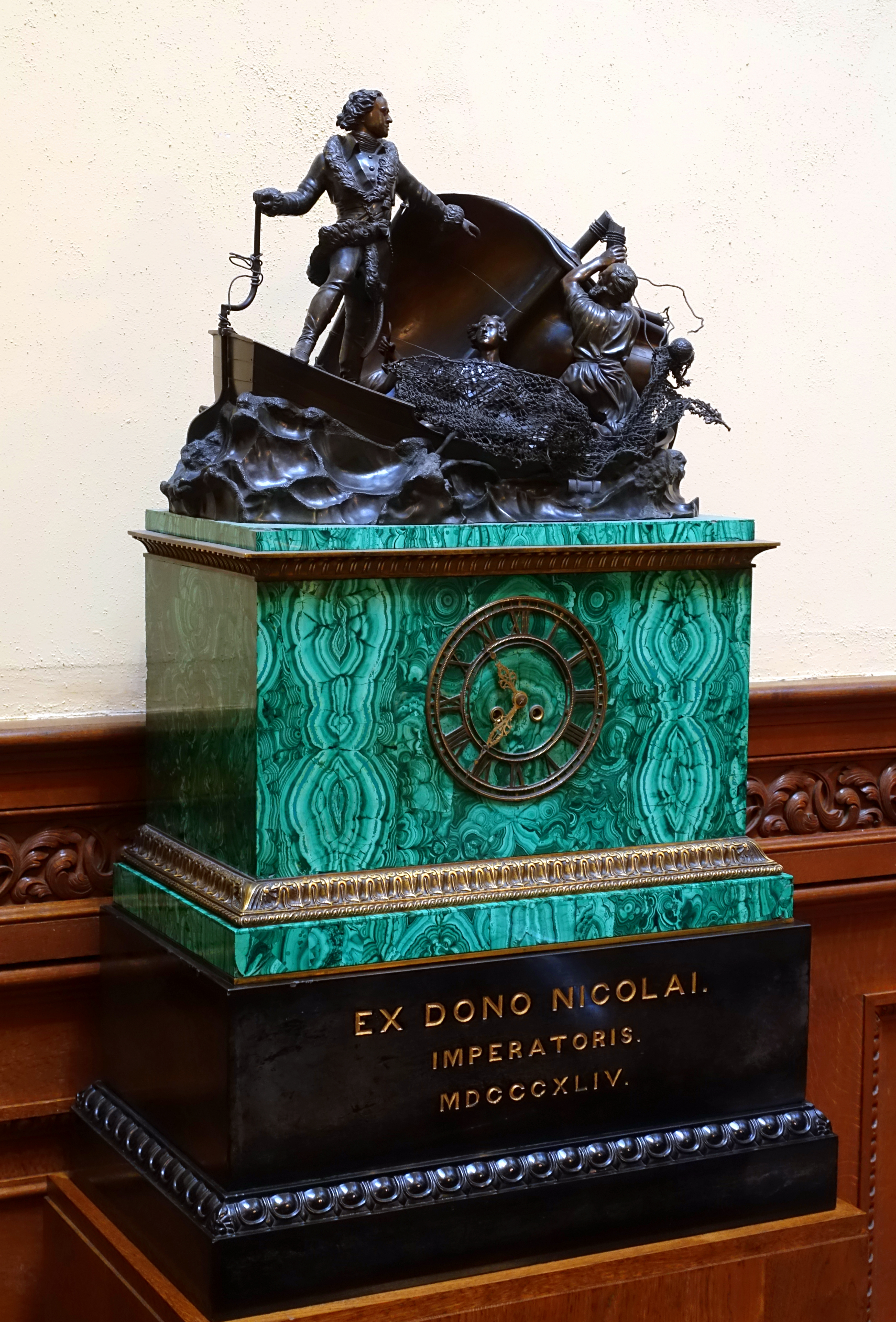 Oak Stairs, Chatsworth House - Derbyshire, England.